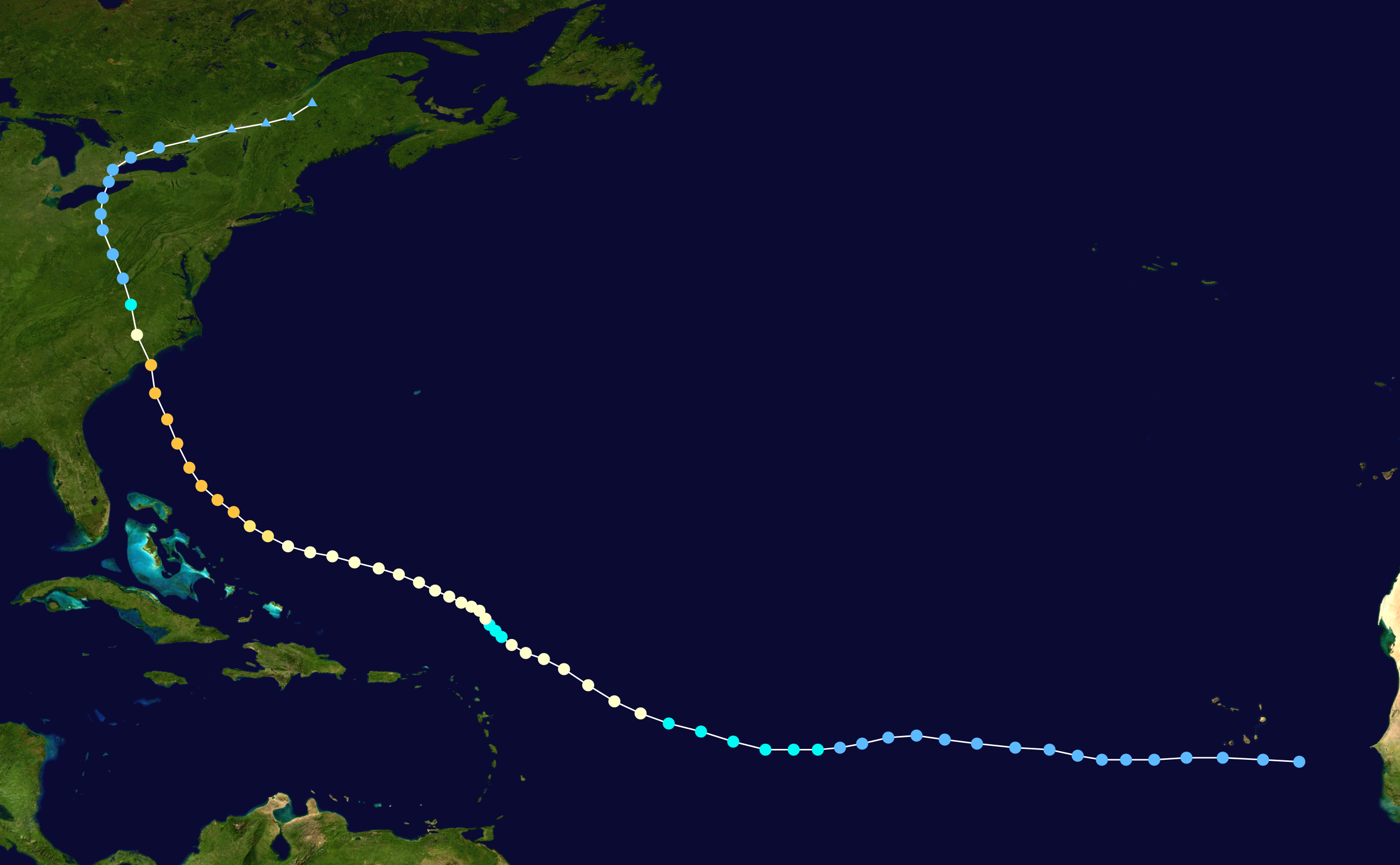 Track map of Hurricane Fran of the 1996 Atlantic hurricane season. The points show the location of the storm at 6-hour intervals. The colour represents the storm's maximum sustained wind speeds as classified in the Saffir–Simpson scale (see below), and the shape of the data points represent the nature of the storm, according to the legend below. Saffir–Simpson scale Tropical depression≤38 mph≤62 km/h Category 3111–129 mph178–208 km/h Tropical storm39–73 mph63–118 km/h Category 4130–156 mph209–251 km/h Category 174–95 mph119–153 km/h Category 5≥157 mph≥252 km/h Category 296–110 mph154–177 km/h Unknown Storm type Tropical cyclone Subtropical cyclone Extratropical cyclone / Remnant low / Tropical disturbance / Monsoon depression